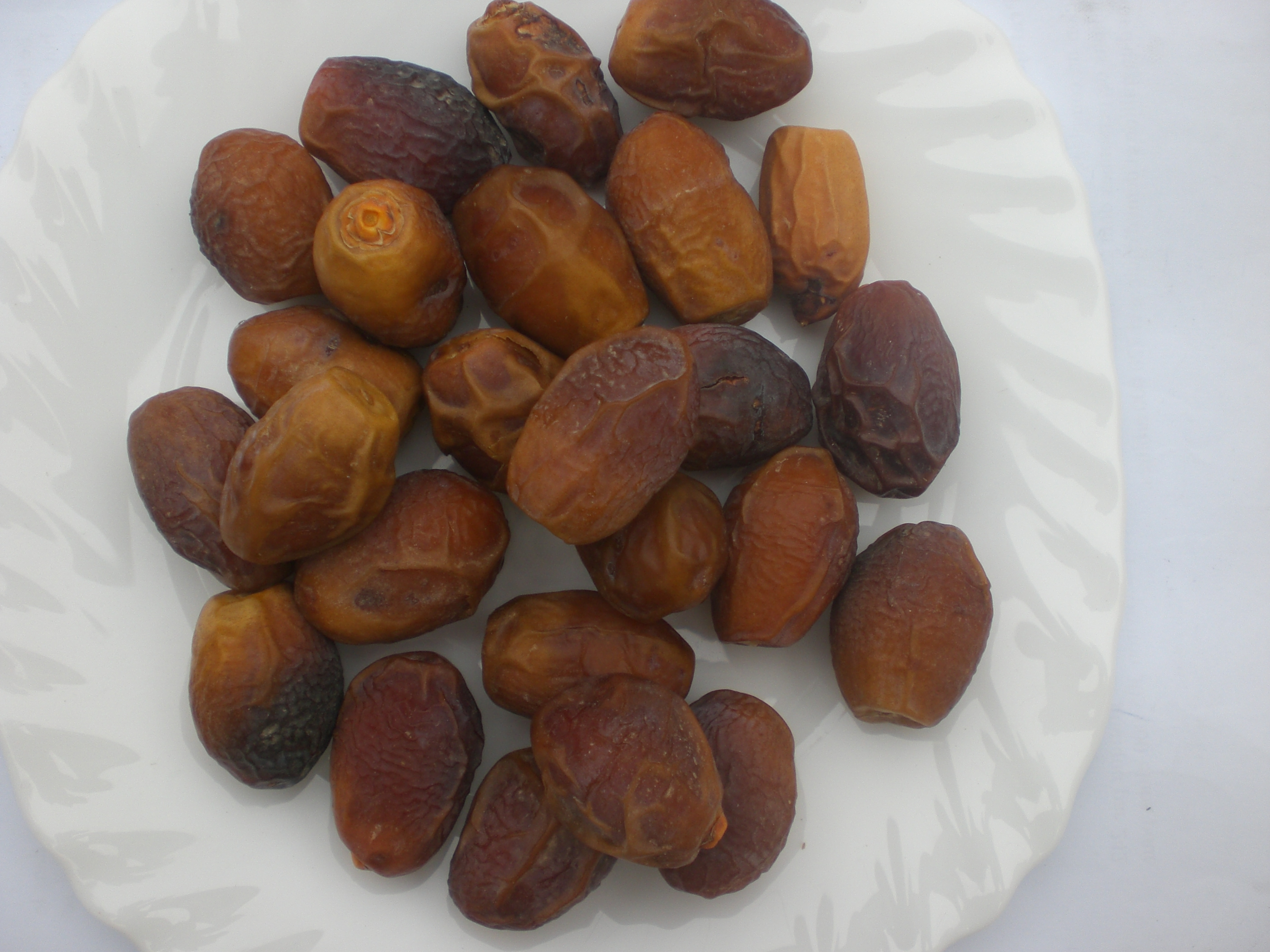 Trounja, Tunisian dates